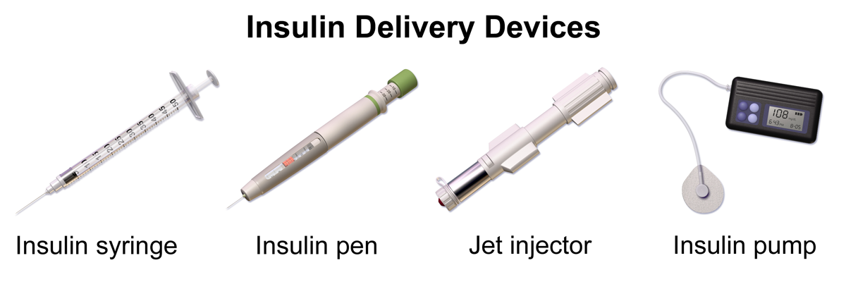 Insulin Delivery Devices. See a full animation of this medical topic.